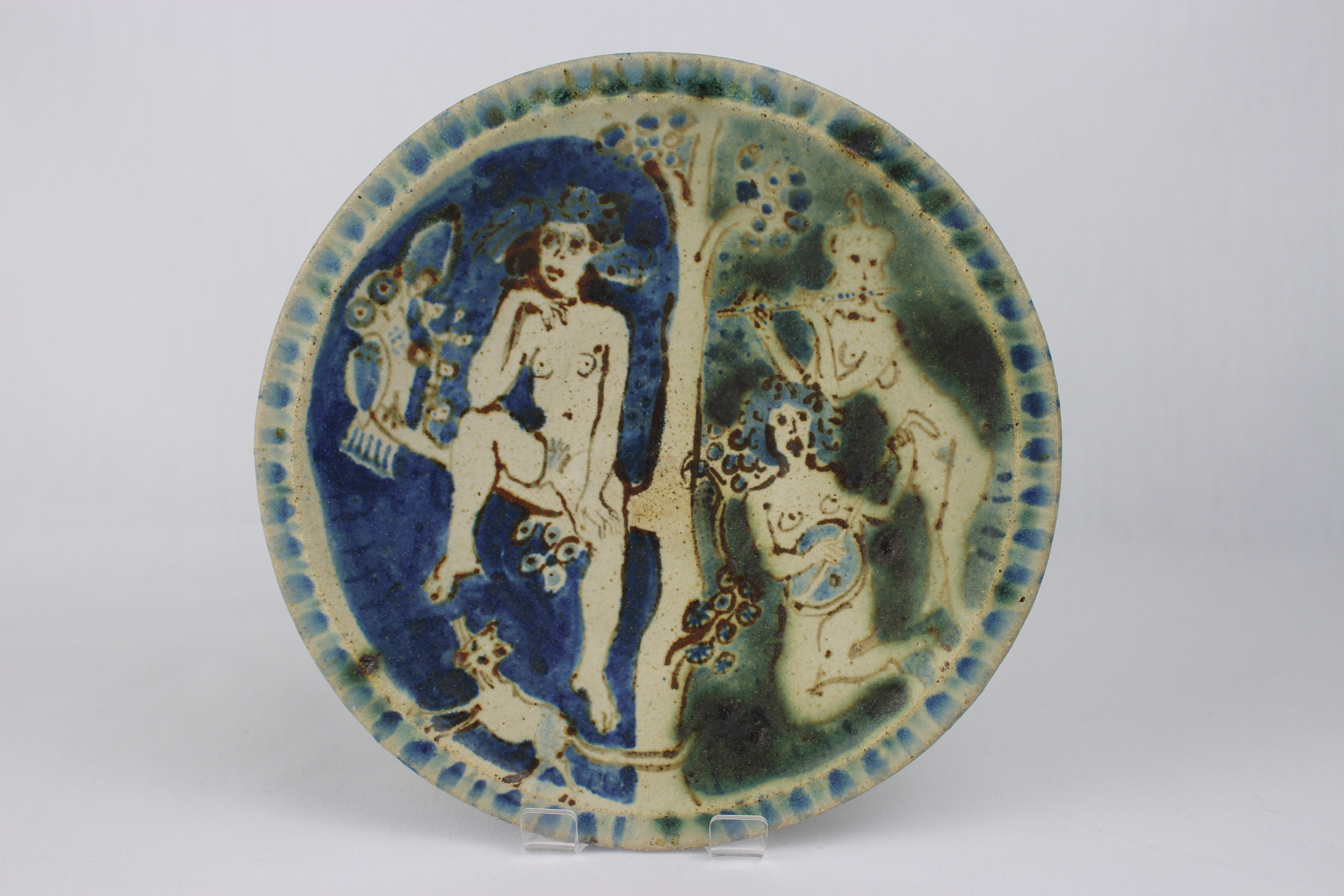 Bowl with low foot, decorated with an image of Persephone and two musicians. From the W.A. Ismay Studio Ceramics Collection at York Art Gallery